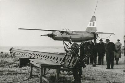 A Northrop OQ-19 target drone on a launching rail on the Falga shooting range near Den Helder, The Netherlands.